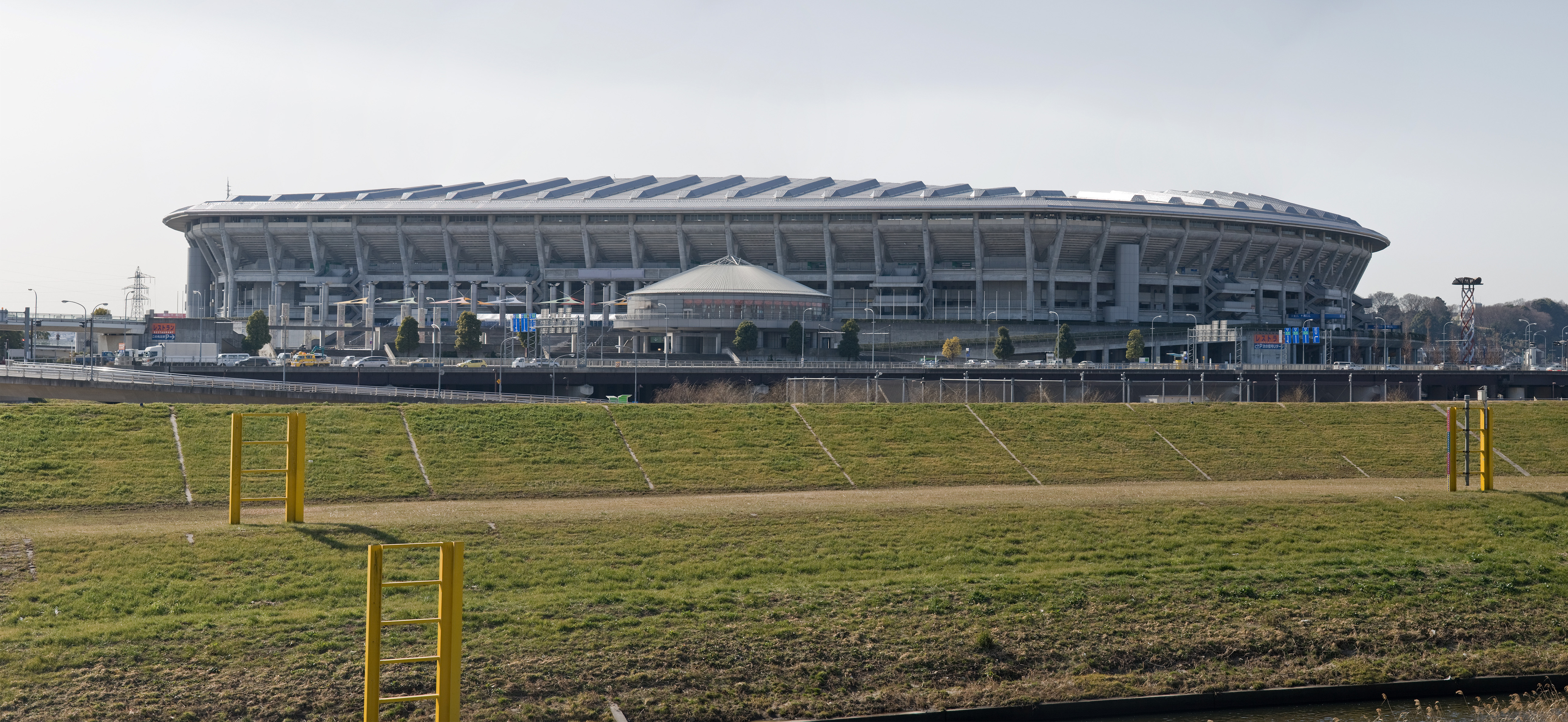 International Stadium Yokohama (横浜国際総合競技場 Yokohama Kokusai Sōgō Kyōgi-jō), Yokohama city, Kanagawa pref, Japan.